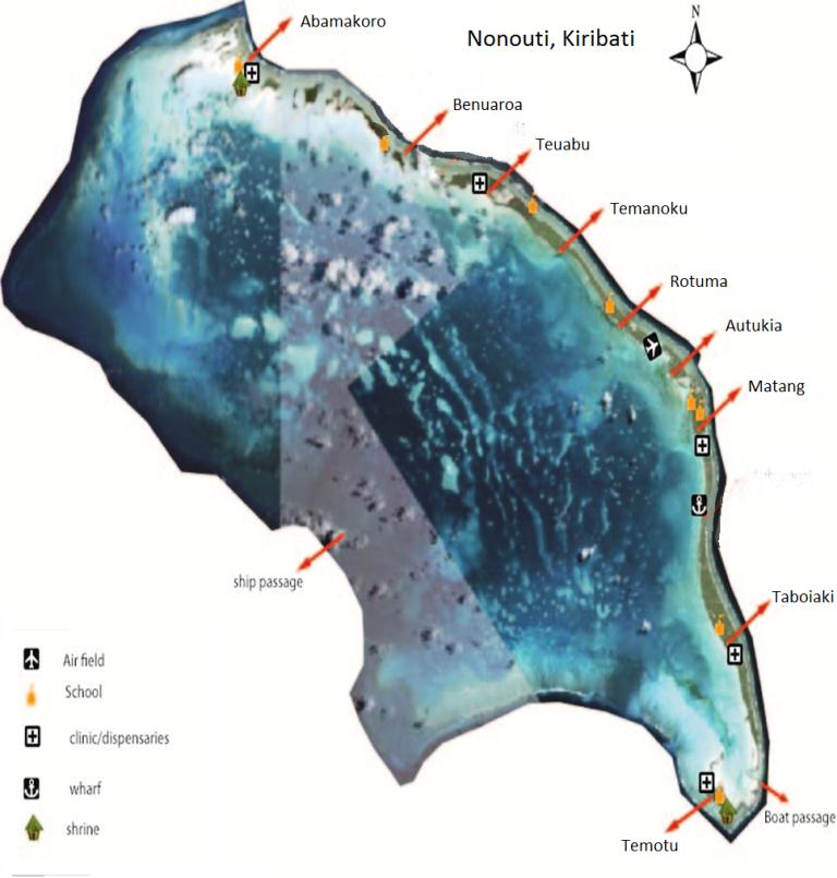 Astronaut photo of Nonouti, Kiribati with villages and main landmarks